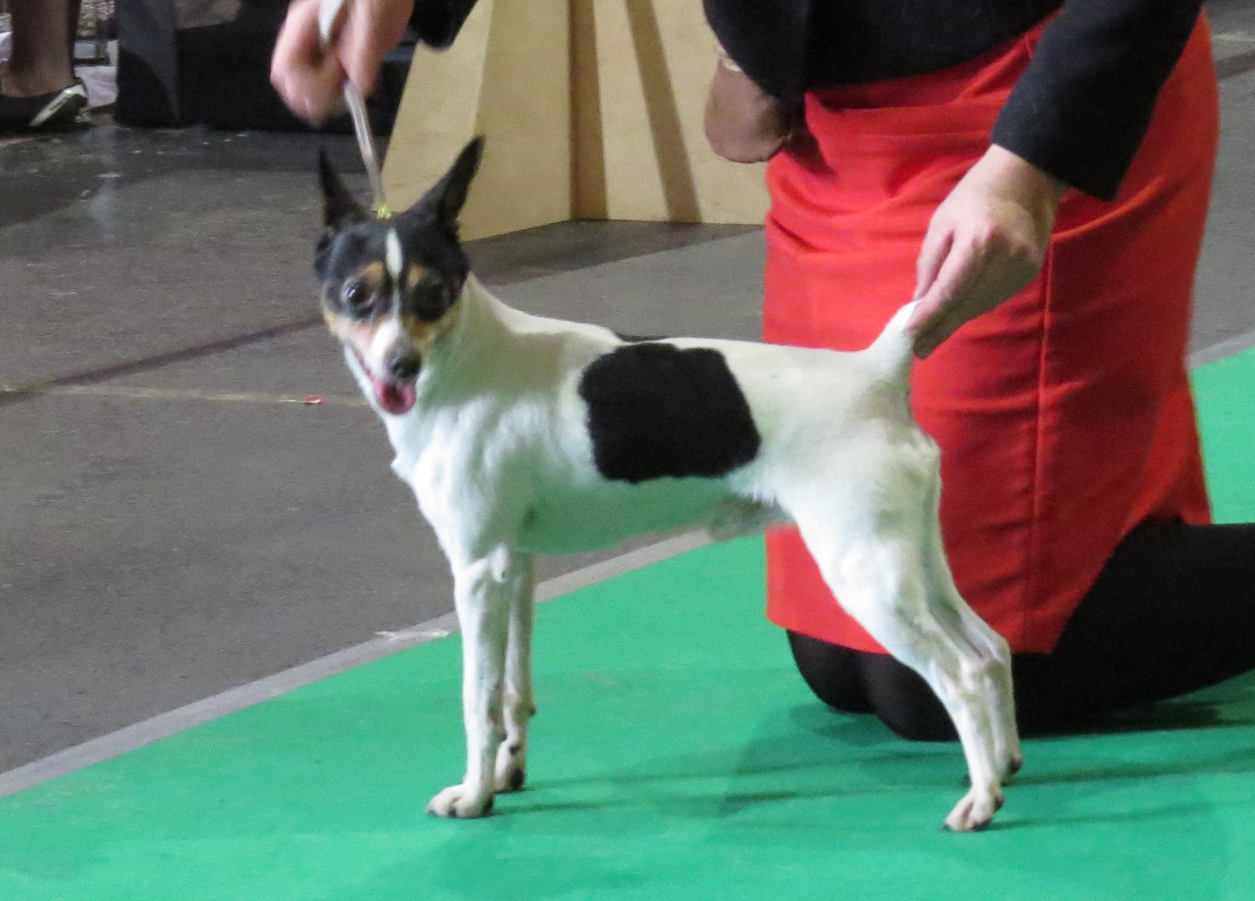 Riga, Baltic Winner -2013, 9-10 Nov